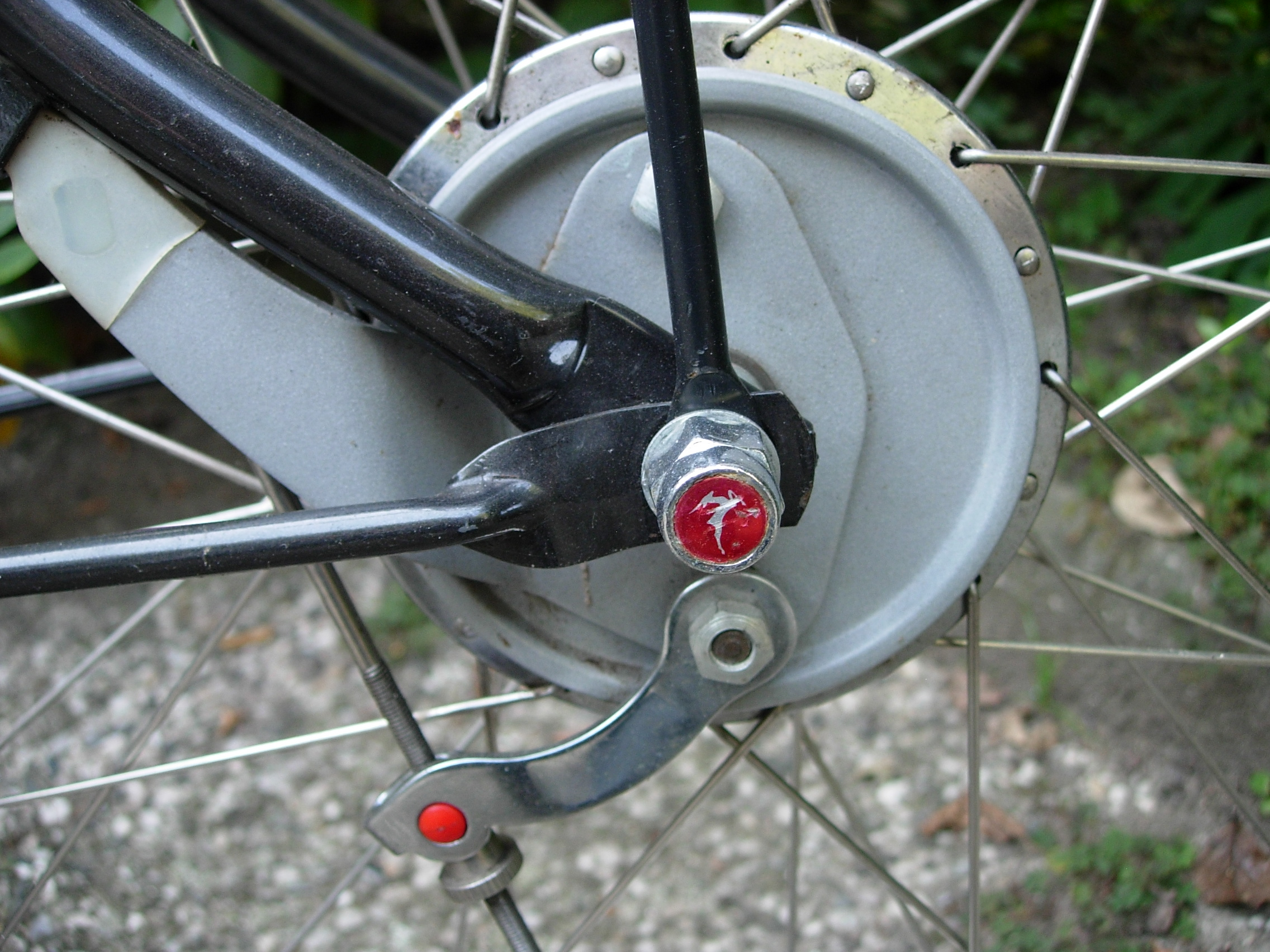 3 speed hub with rod-operated drum brakes